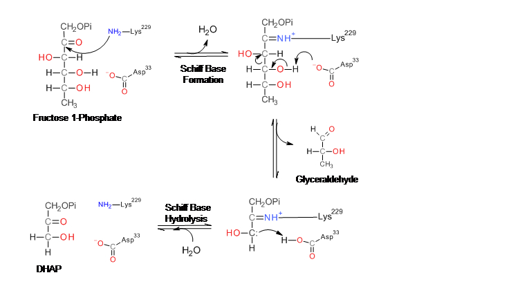 A reaction mechanism for the aldol cleavage of L-Fuculose 1-phosphate into D-Lactaldehyde and dihydroxyacetone phosphate by aldolase B.